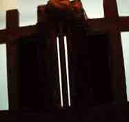 photograph of apparatus for double-slit light interference experiment